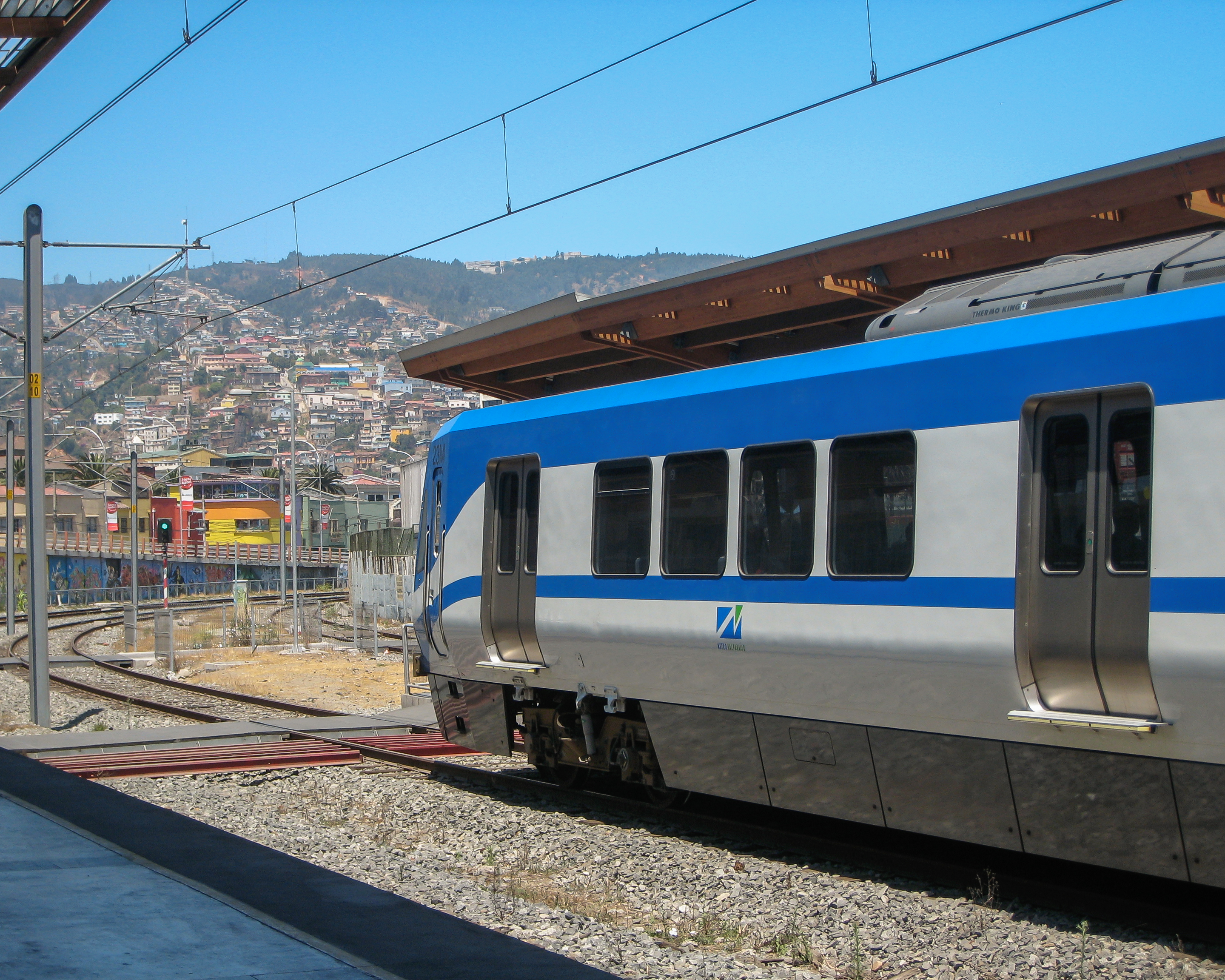 Barón station, Valparaíso Metro. Valparaíso, Chile.